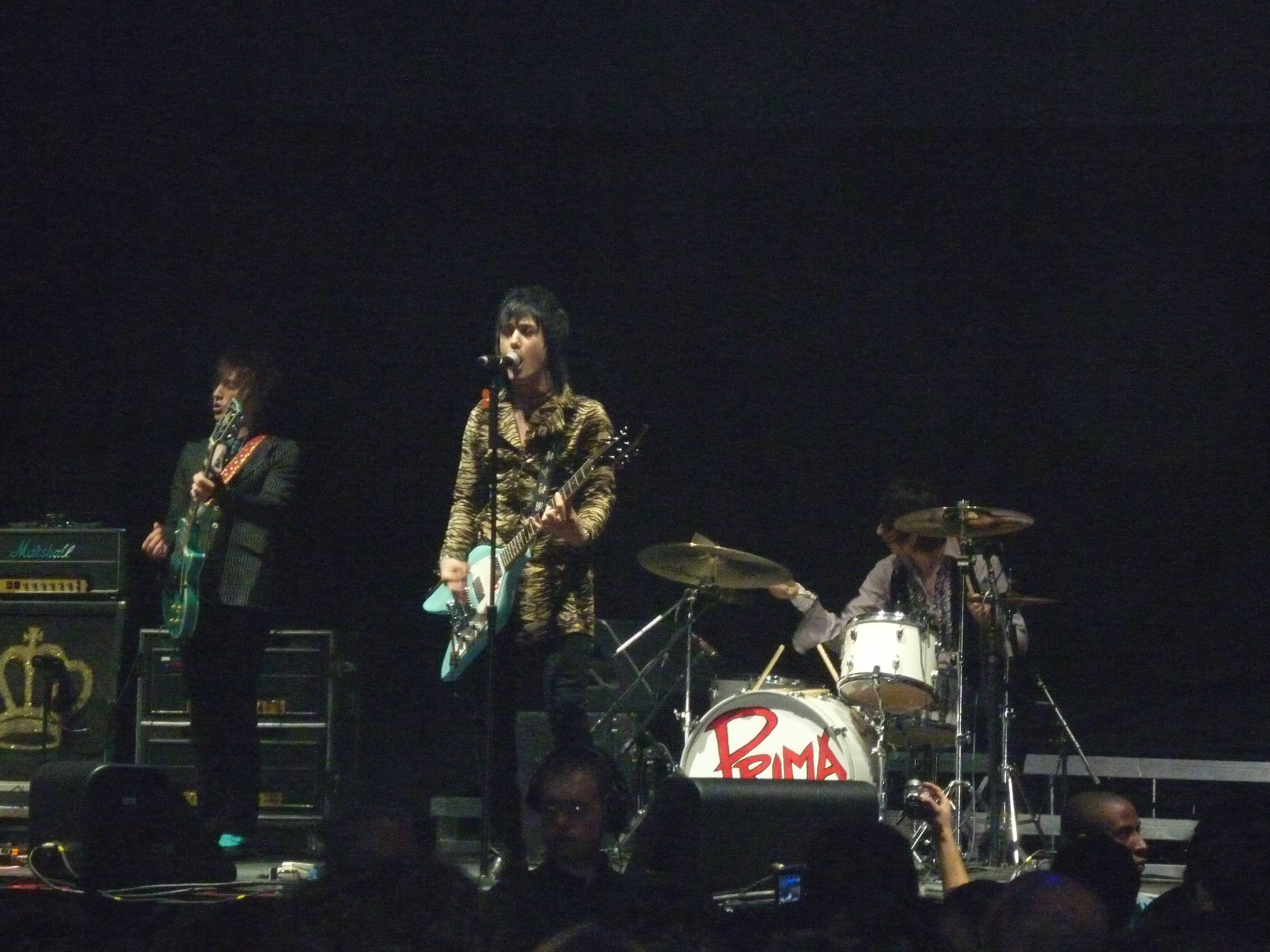 Prima Donna supporting Green Day at the Millenium Dome, 2009